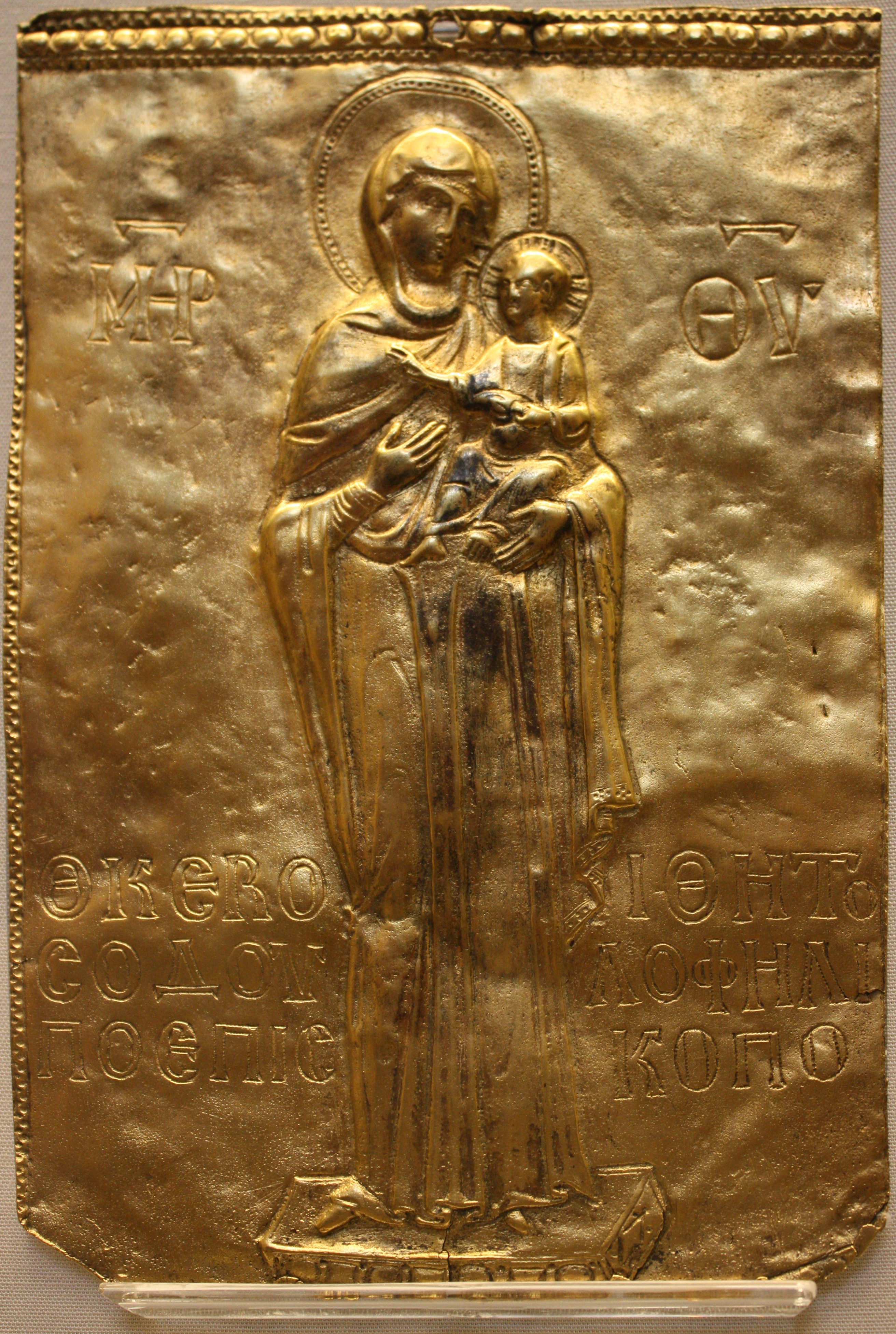 Virgin and Child Copper, embossed and gilded Italo-Byzantine (Venice) 12th century 818-1891 Found in the rood-loft of the Cathedral of Torcello (Venice). Inscribed in Greek: 'Mother of God strengthen thy servant Philip the bishop'; the bishop has not been identified. The plaque was probably made for an altar. Wikipedia Loves Art at the Victoria and Albert Museum This photo of item # 818-1891 at the Victoria and Albert Museum was contributed under the team name "va_va_val" as part of the Wikipedia Loves Art project in February 2009. Victoria and Albert Museum The original photograph on Flickr was taken by Val_McG—please add a comment to the original Flickr page whenever a use has been made on Wikipedia or another project. Project galleries on Flickr: this institution, this team